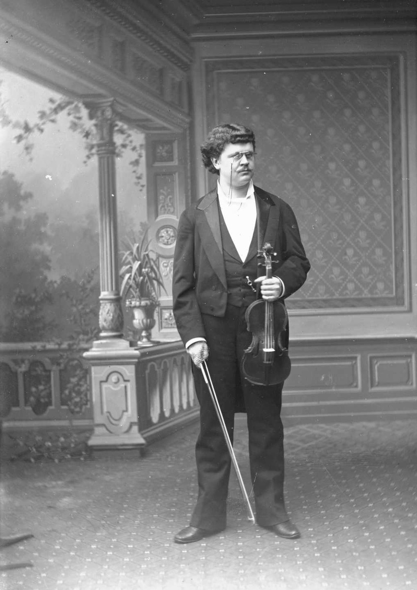 Polish composer and violinist Stanisław Barcewicz (1858–1929). Photo from around 1895, taken in Oslo